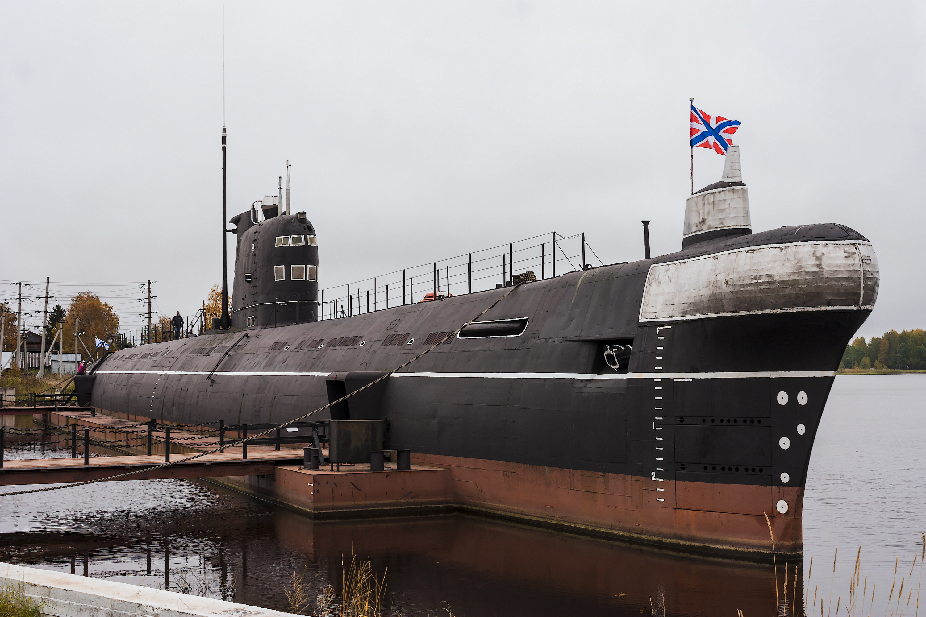 Submarine B-440 in the city of Vytegra, a tour of the company "Vodohod" on the ship Konstantin Simonov, 26 September 2017.